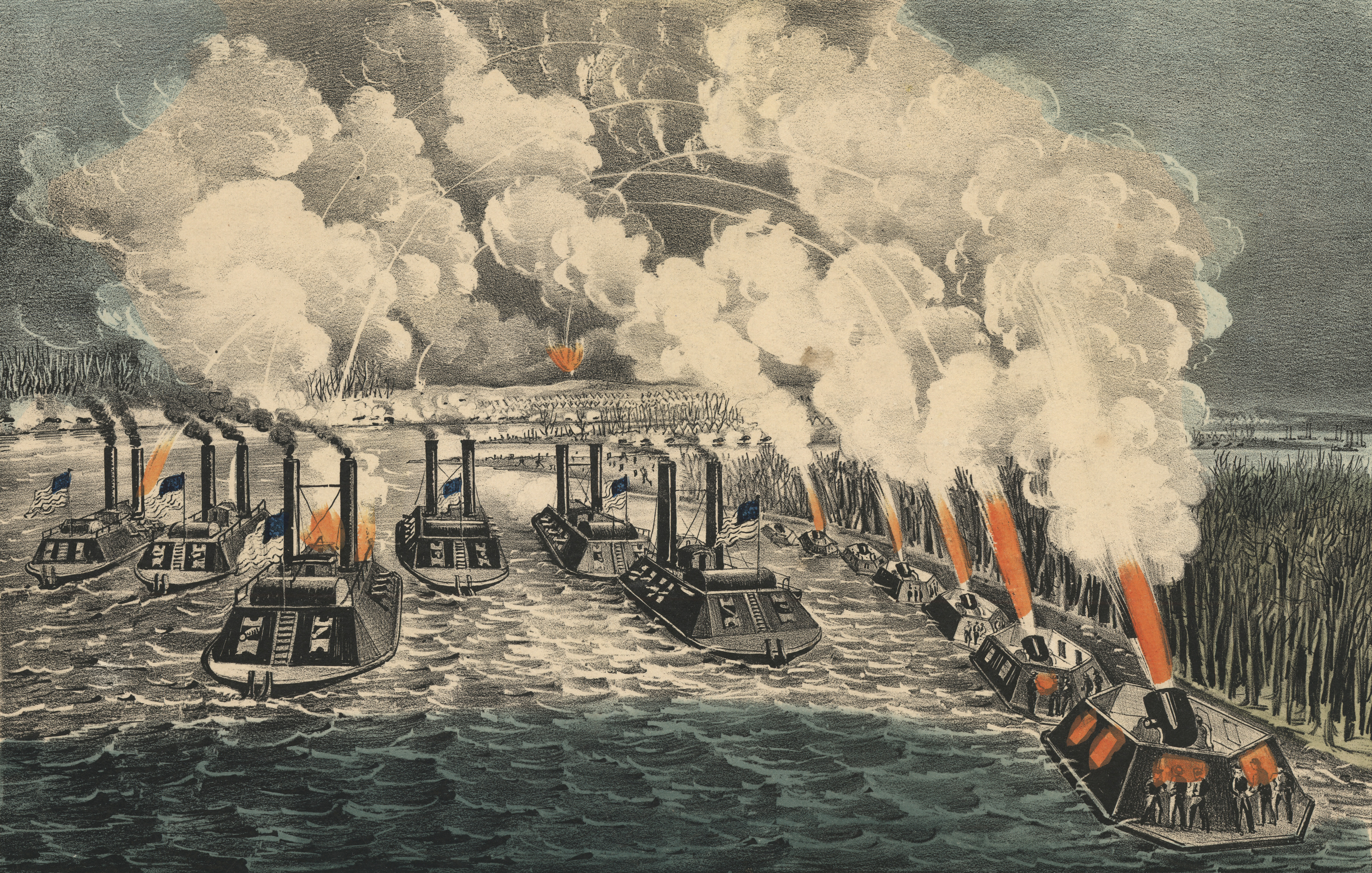 Print of a naval battle scene with ironclad gunboats and mortar boats in the foreground firing upon an island in the background. "BOMBARDMENT OF ISLAND "NUMBER TEN" IN THE MISSISSIPPI RIVER." (printed below image). Descriptive paragraph printed below image.Title: "Bombardment of Island 'Number Ten' In the Mississippi River."